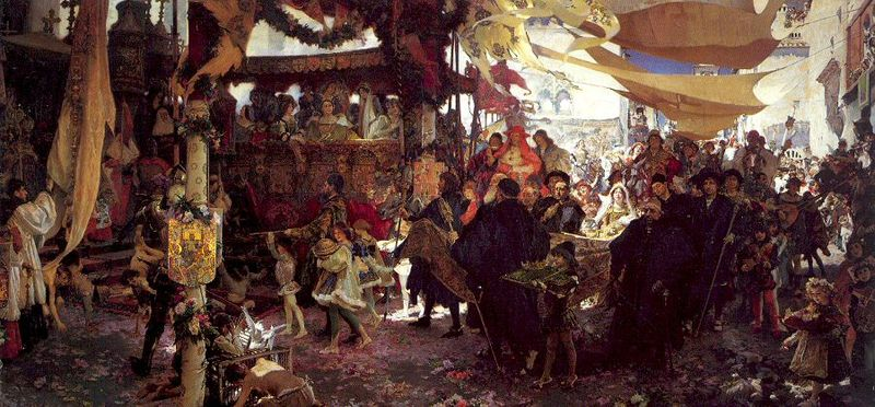 Francisco Pradilla Ortiz "Cortejo del bautizo del Príncipe Don Juan, hijo de los Reyes Católicos, por las calles de Sevilla" (Retinue of the Baptism of Don Juan, son of the Catholic Monarchs, Along the Streets of Seville), 1910